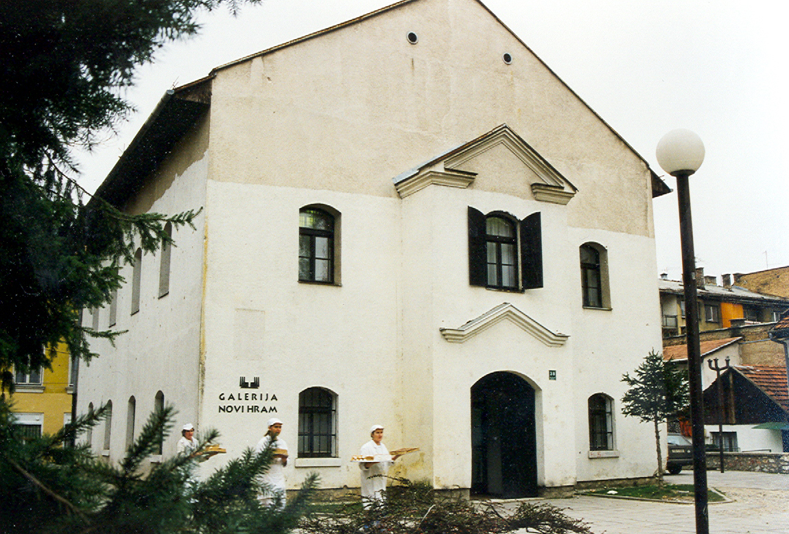 The "Kal Nuevo" Synagogue in Sarajevo